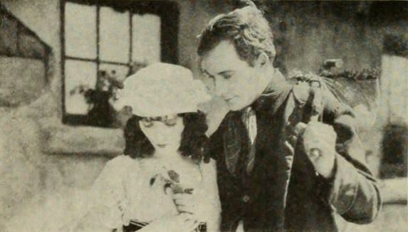 Still from the American film My Wild Irish Rose (1922) with Pauline Starke and Patrick H. O'Malley, Jr., on page 58 of the September 1922 Photoplay.